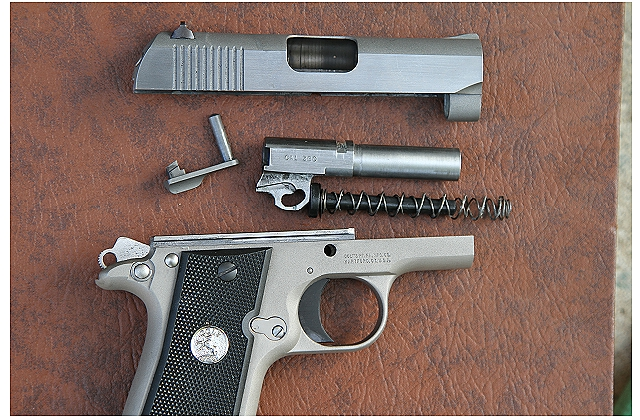 Fieldstriped Colt Pocket Lite